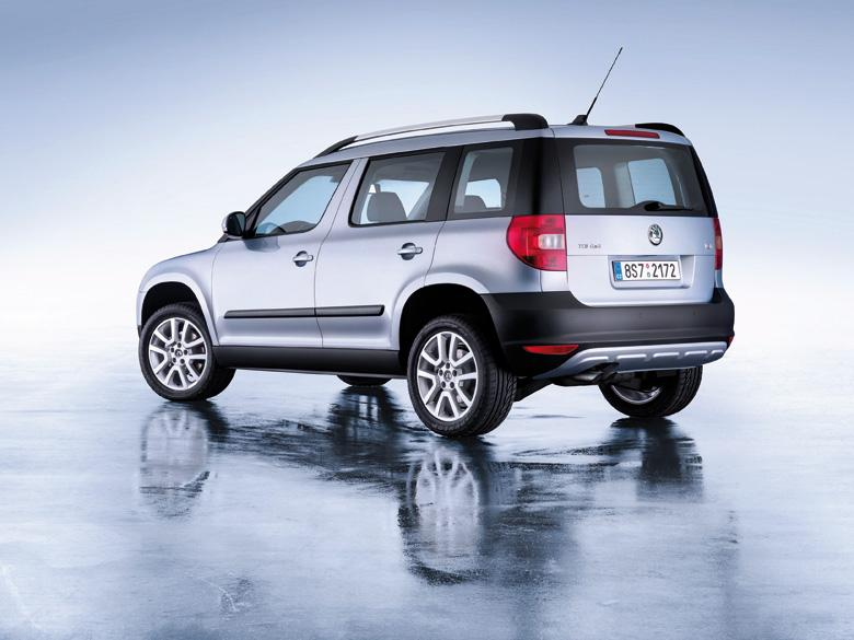 Skoda-Yeti-exterior-back